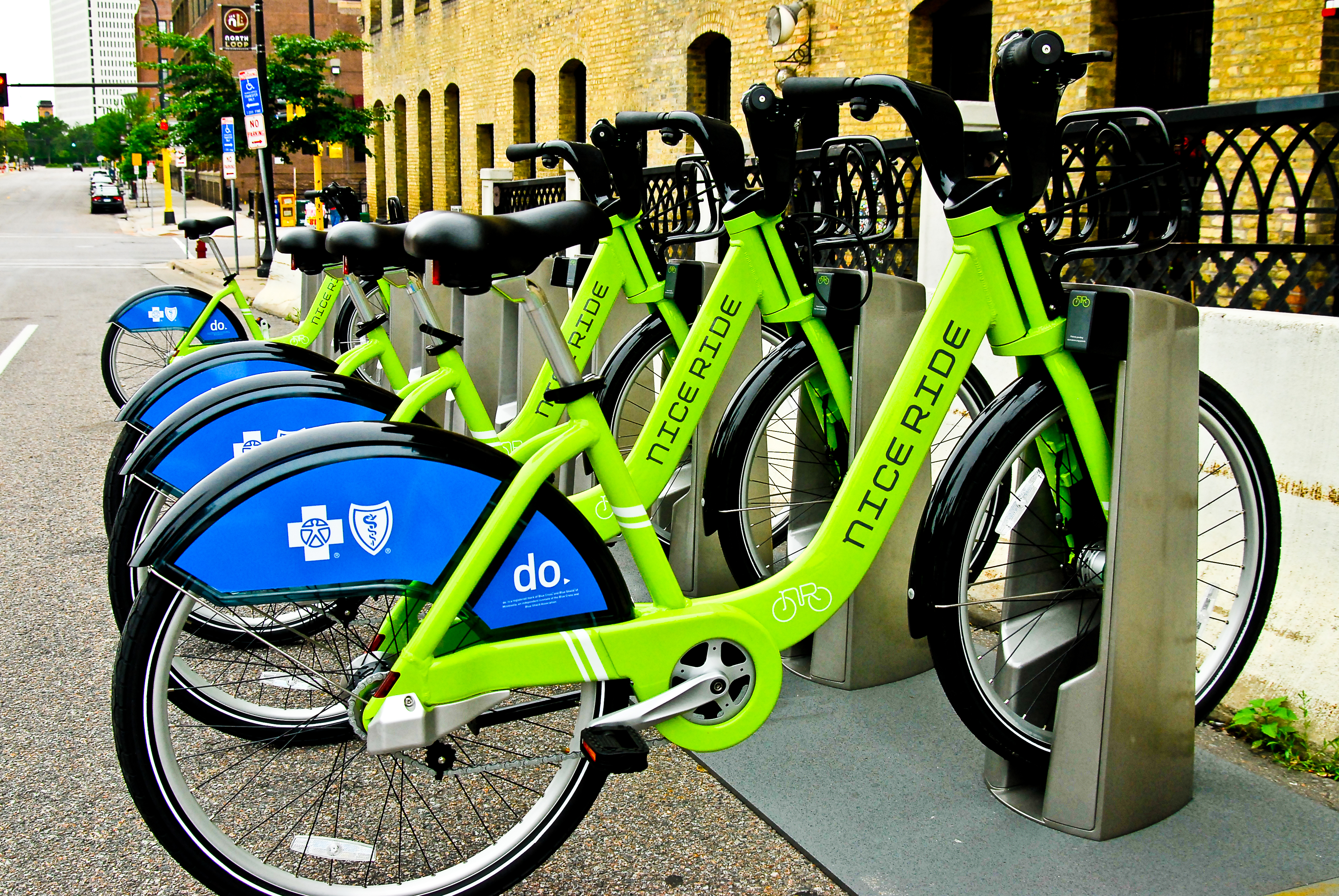 A Nice Ride Minnesota bike kiosk in the Twin Cities